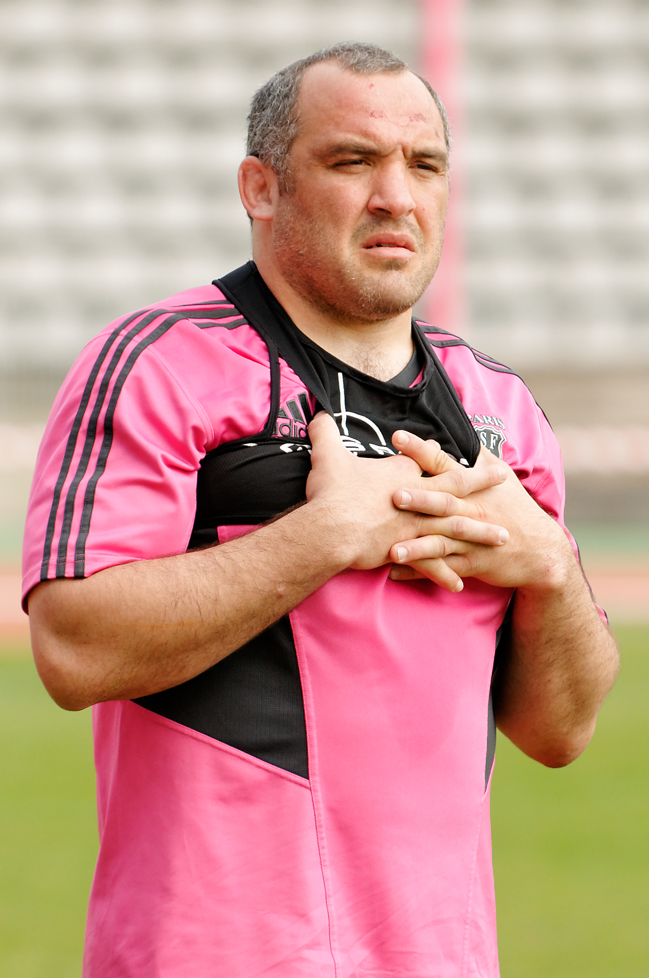 Rodrigo Roncero during the Stade Français training session held at Stade Charléty, Paris on 3 April 2012.